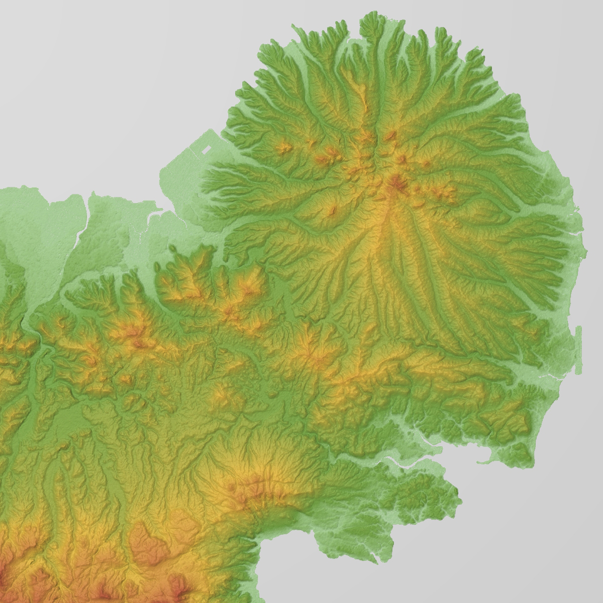 Kunisaki Peninsula in Oita Prefecture, Japan. This file updated by 30m Mesh.